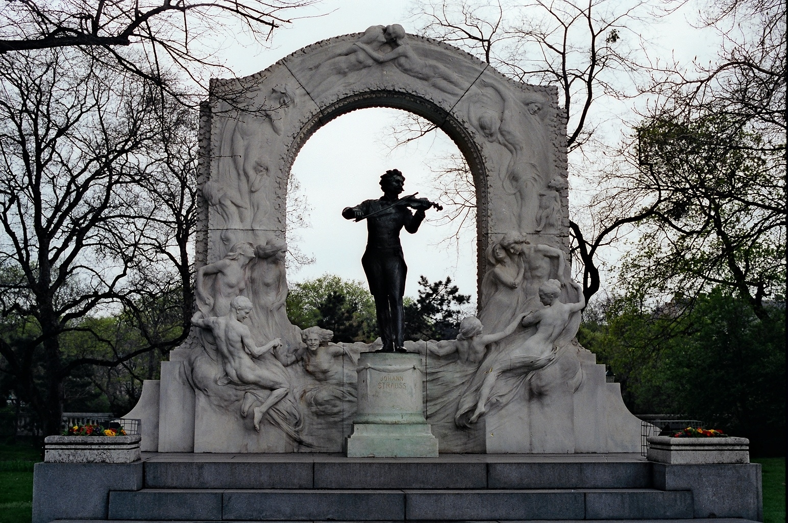 Johann Strauss Monument in Stadt Park, Vienna